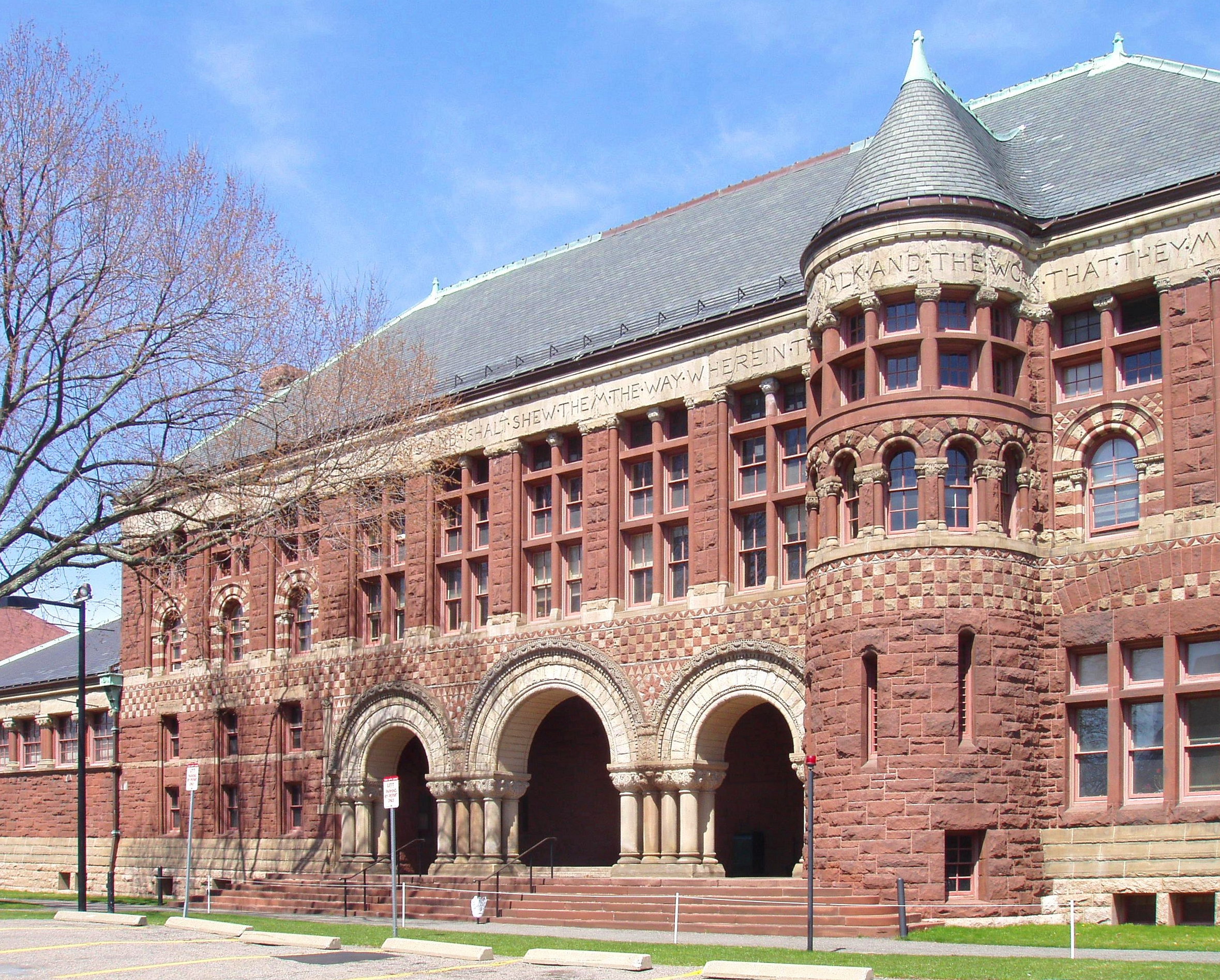 Photograph of front facade, Austin Hall, Harvard Law School, Harvard University, Cambridge, Massachusetts, USA.